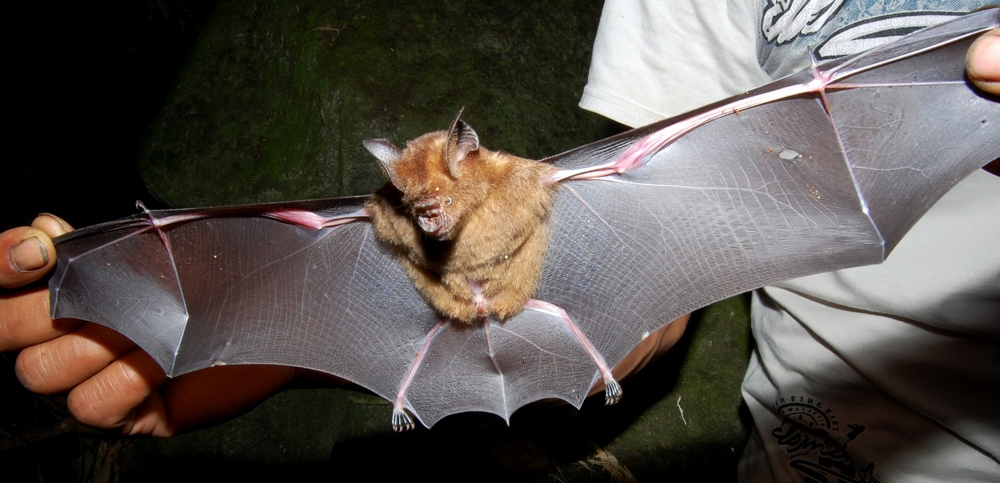 Intermediate Roundleaf Bat (Hipposideros larvatus), forearm 60mm. From Lampung, Southern Sumatra.